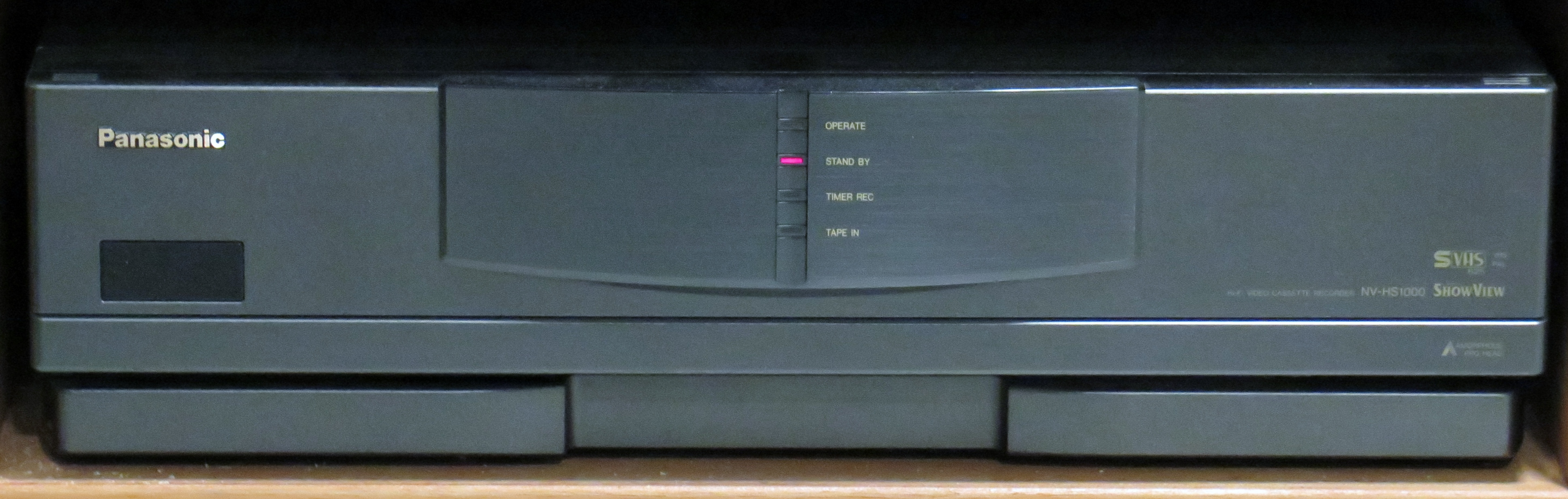 S-vhs video recorder PANASONIC NV-HS1000EGC records video to S-VHS tape.